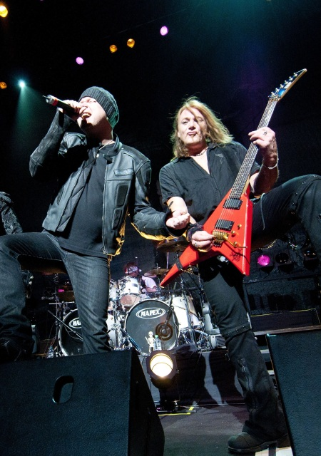 Kiske & Hansen (live)